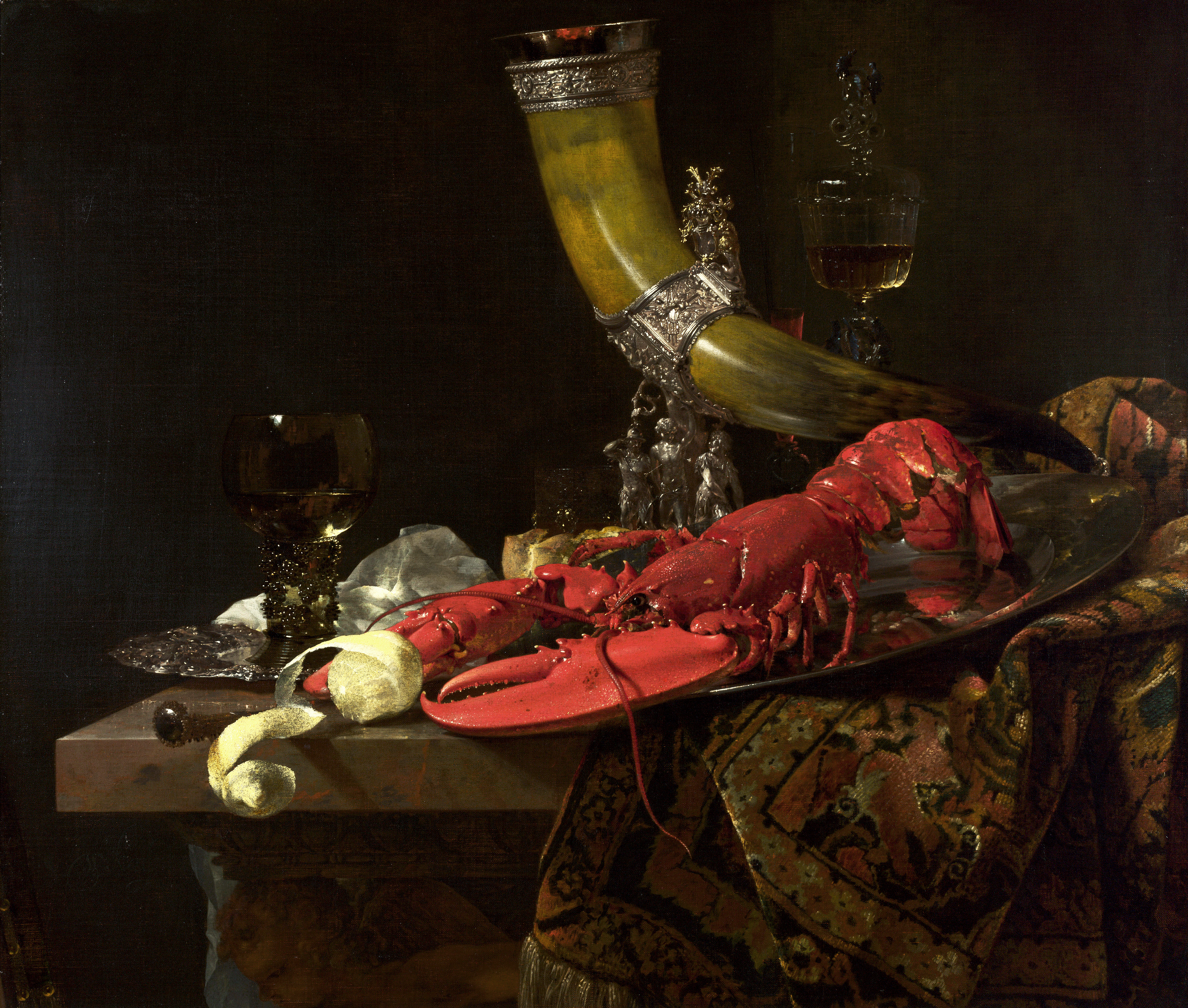 The drinking-horn in this still life was made of a single buffalo horn set into a silver mount which features Saint Sebastian, patron saint of archers, who was bound to a tree as a target for two Roman soldiers. It dates from 1565 and is kept today in the Amsterdam Historisch Museum. The horn suggests that the painting was probably commissioned by a member of the Amsterdam archers' guild.The artist has chosen the objects shown for their magnificent colour and texture. The sparkle of the lobster, the gleam of the lemon, the subtle texture of the carpet, all demonstrate the play of light over different surfaces. A contemporary viewer would have recognised the objects as expensive luxury items that only the wealthy would have been able to afford.